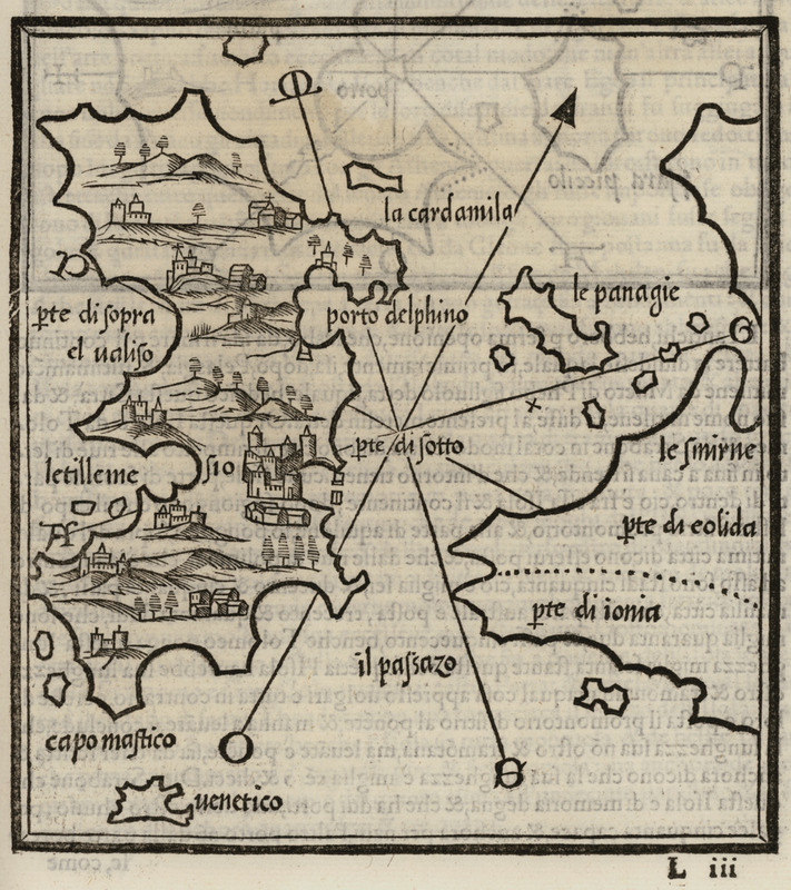 Isolario di Benedetto Bordone nel qual si ragiona di tutte l'isole del mondo, con li lor nomi antichi & moderni, historie, favole, & modi del loro vivere, Venice 1547.